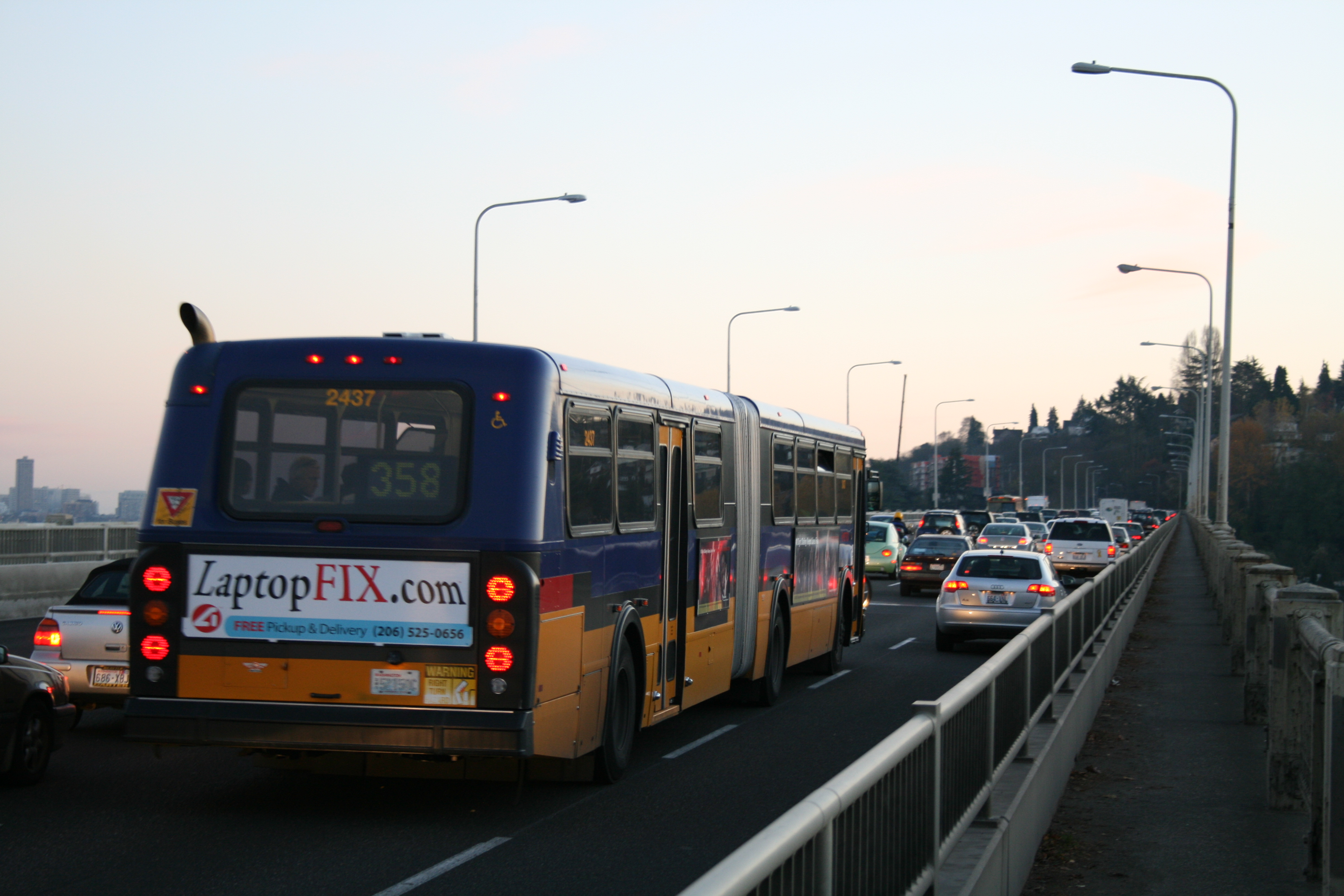 Southbound route 358 crossing the George Washington Memorial Bridge, Fremont, Washington